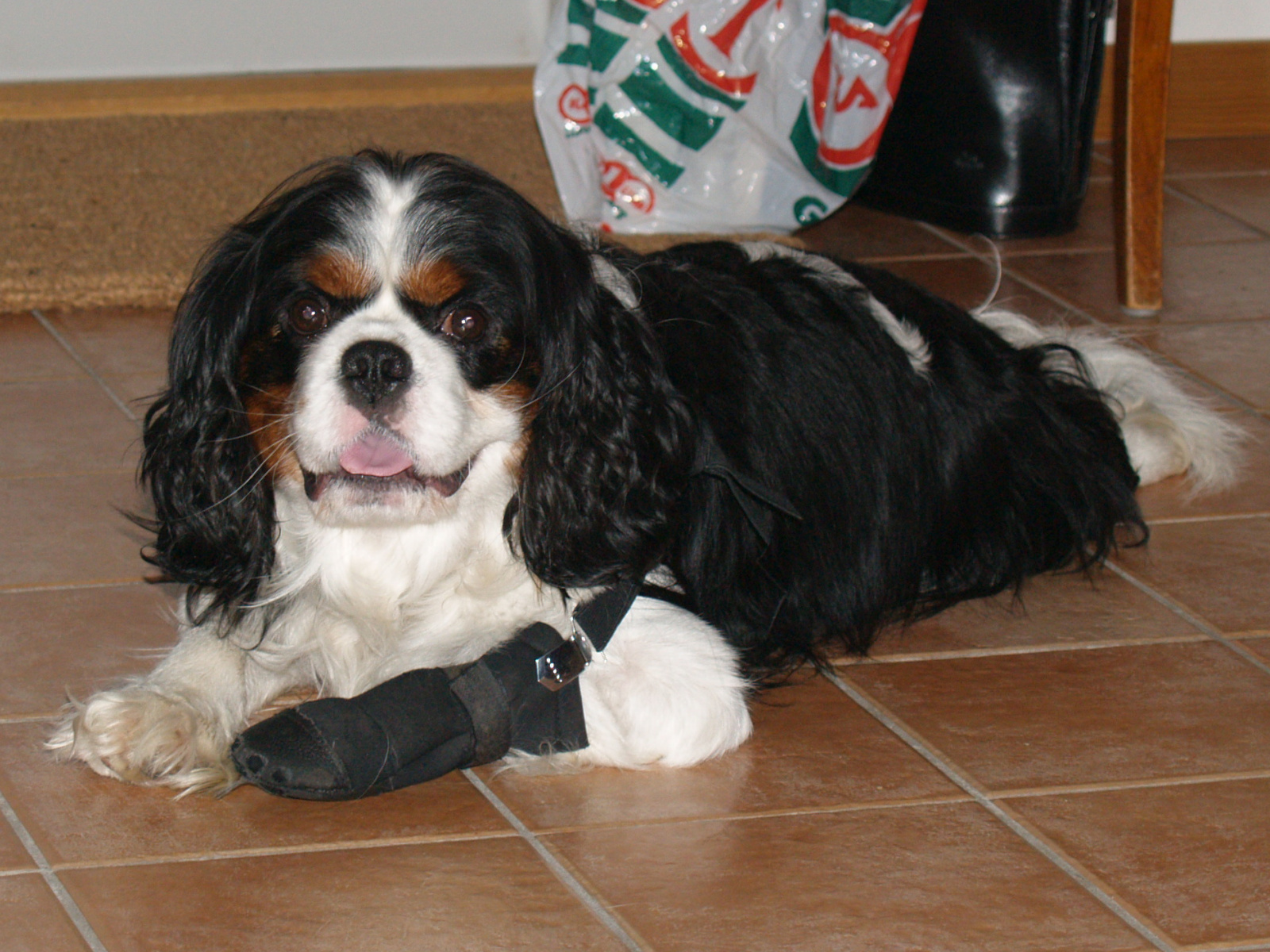 A dog (Cavalier_King_Charles_Spaniel) with a bandaged foot. Note the suspenders made from a pair of human suspenders.